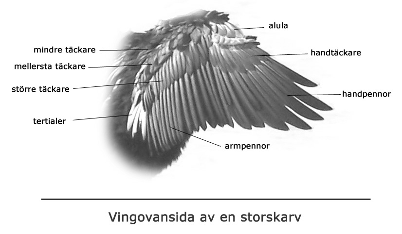 The wing of a Great comorant (Phalacrocorax carbo)